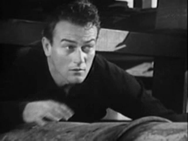 Snapshot from Sagebrush Trail (1933)